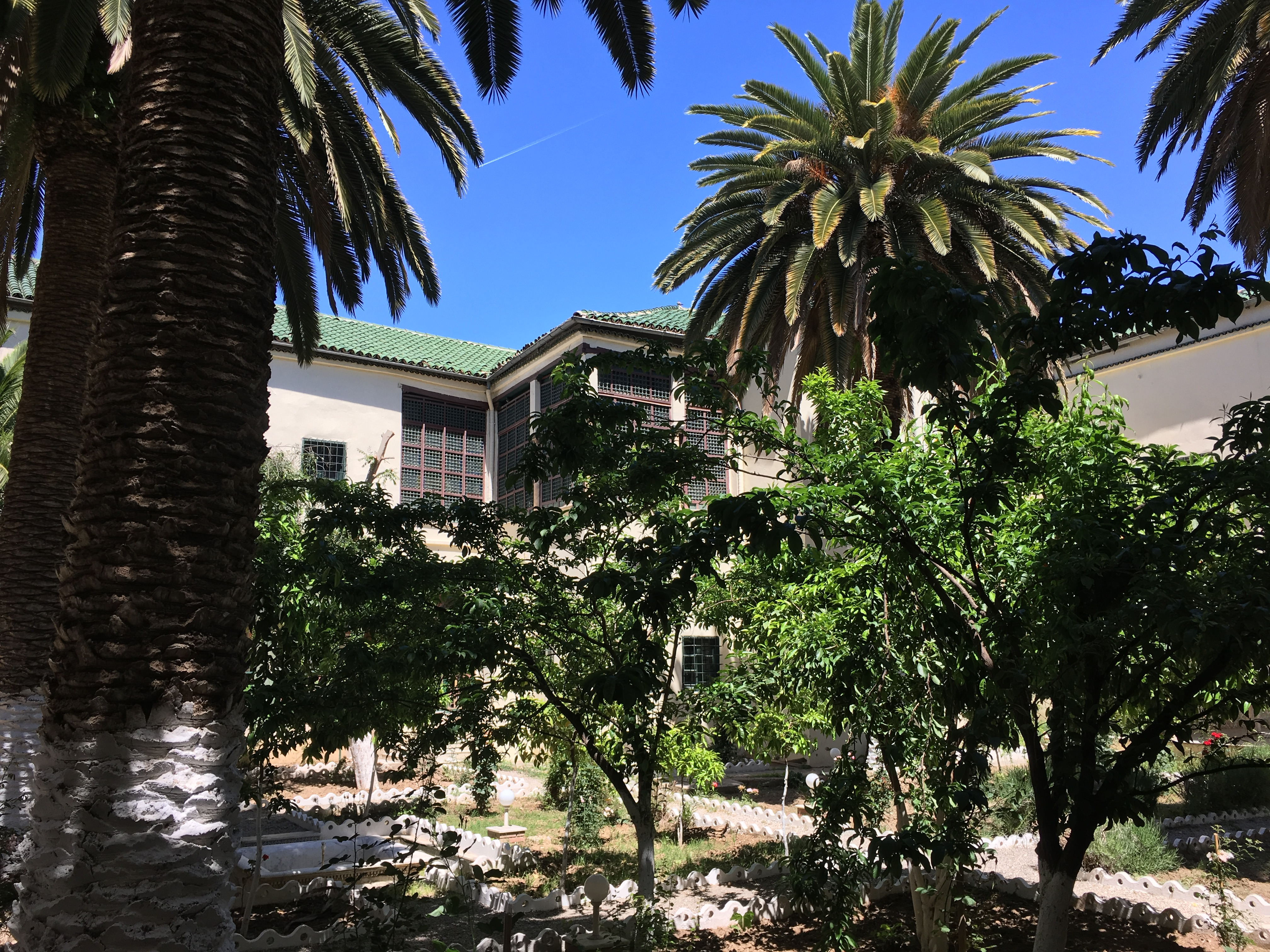 Ahmed Bey Palace, Constantine, Algeria